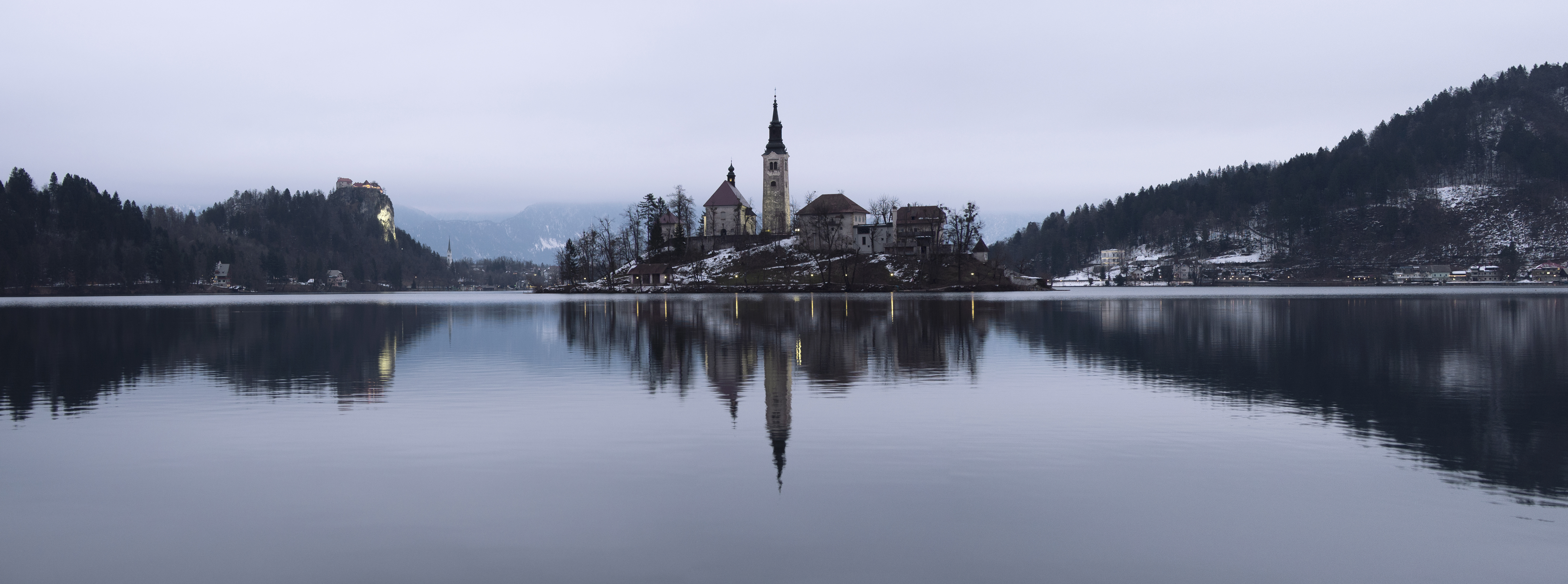 Panorama of Bled lake with its island where church of Assumption stand. Bled, Slovenia.